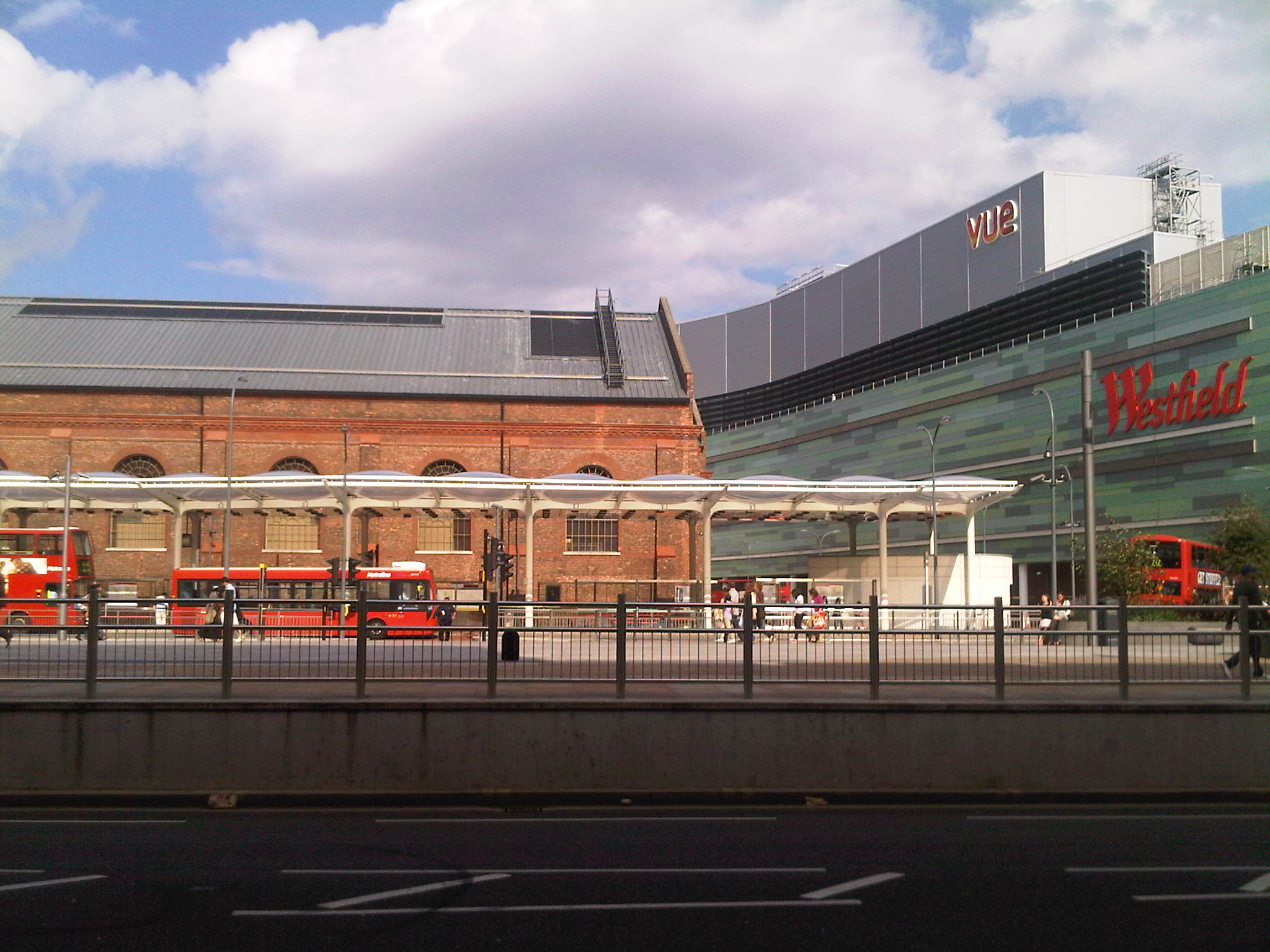 White City Bus Station and Westfield Shopping Centre in Wood Lane, London